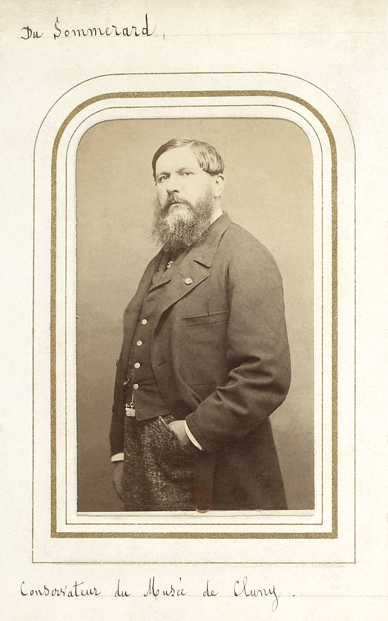 Edmond du Sommerard (1817-1885), son of the founder and first curator of the Musée national du Moyen-Âge (musée de Cluny) in Paris, France.